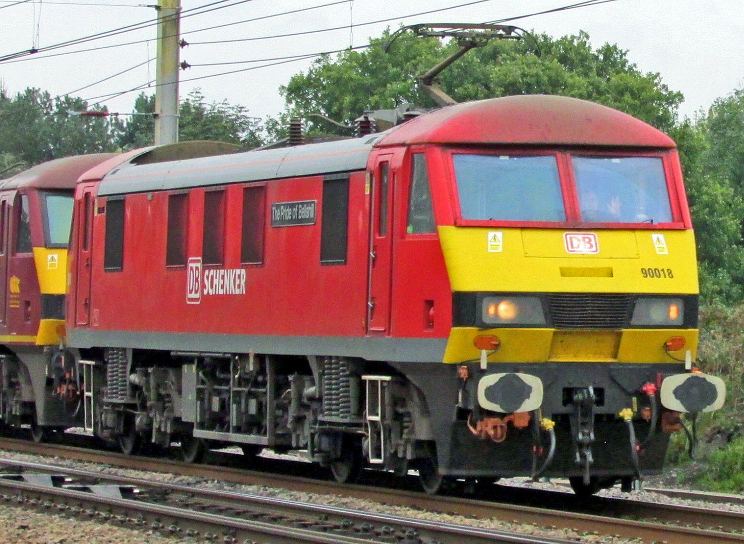 Class 90 90018 "The Pride of Bellshill" of DB Cargo UK wearing the DB Schenker colour scheme on a southbound freight train at Euxton Lancashire on 14 October 2016.